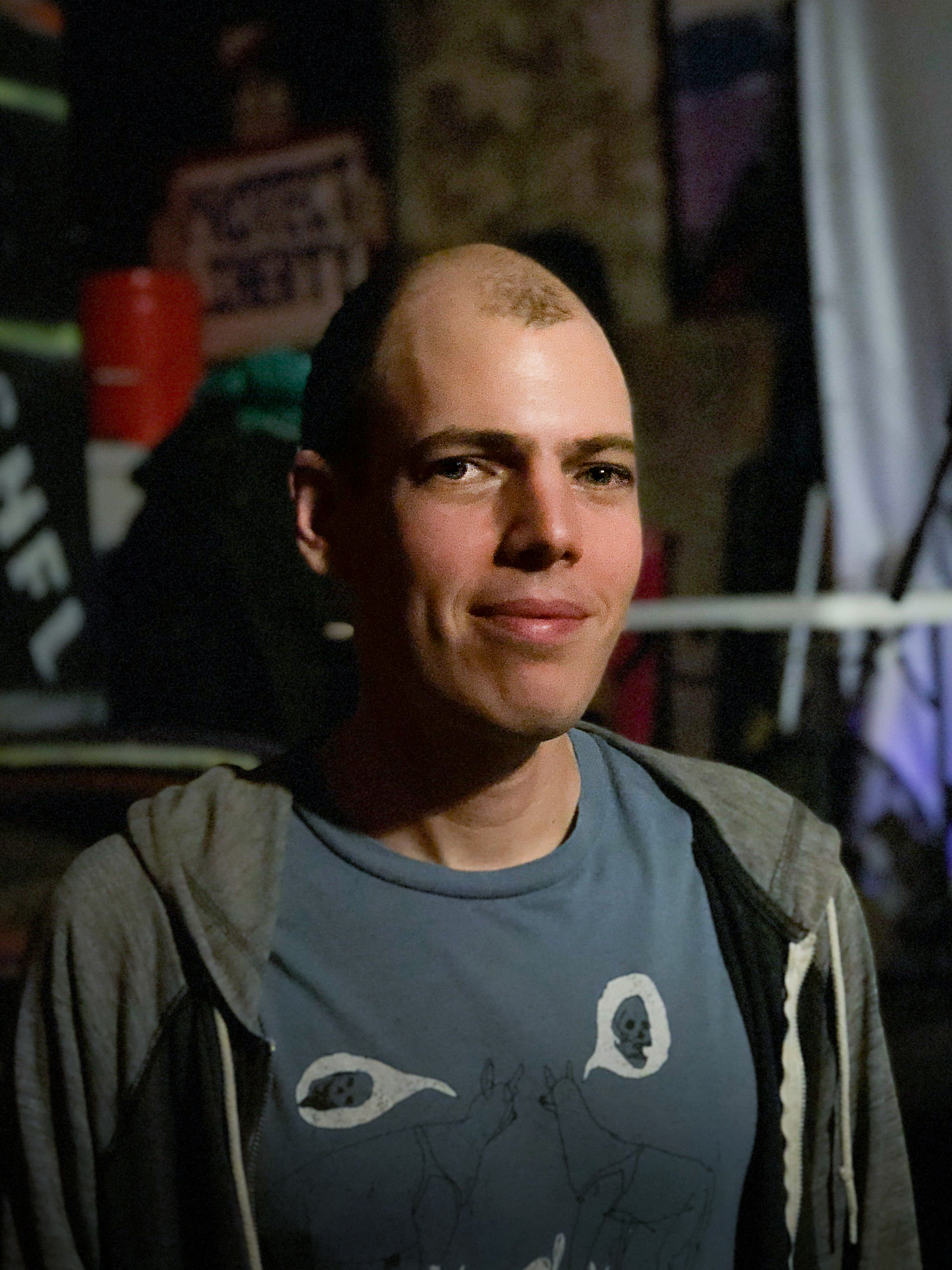 Portrait image for singer/songwriter and comic book artist Jeffrey Lewis